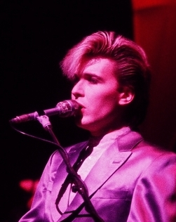 David Sylvian in concert with Japan at the Hammersmith Odeon